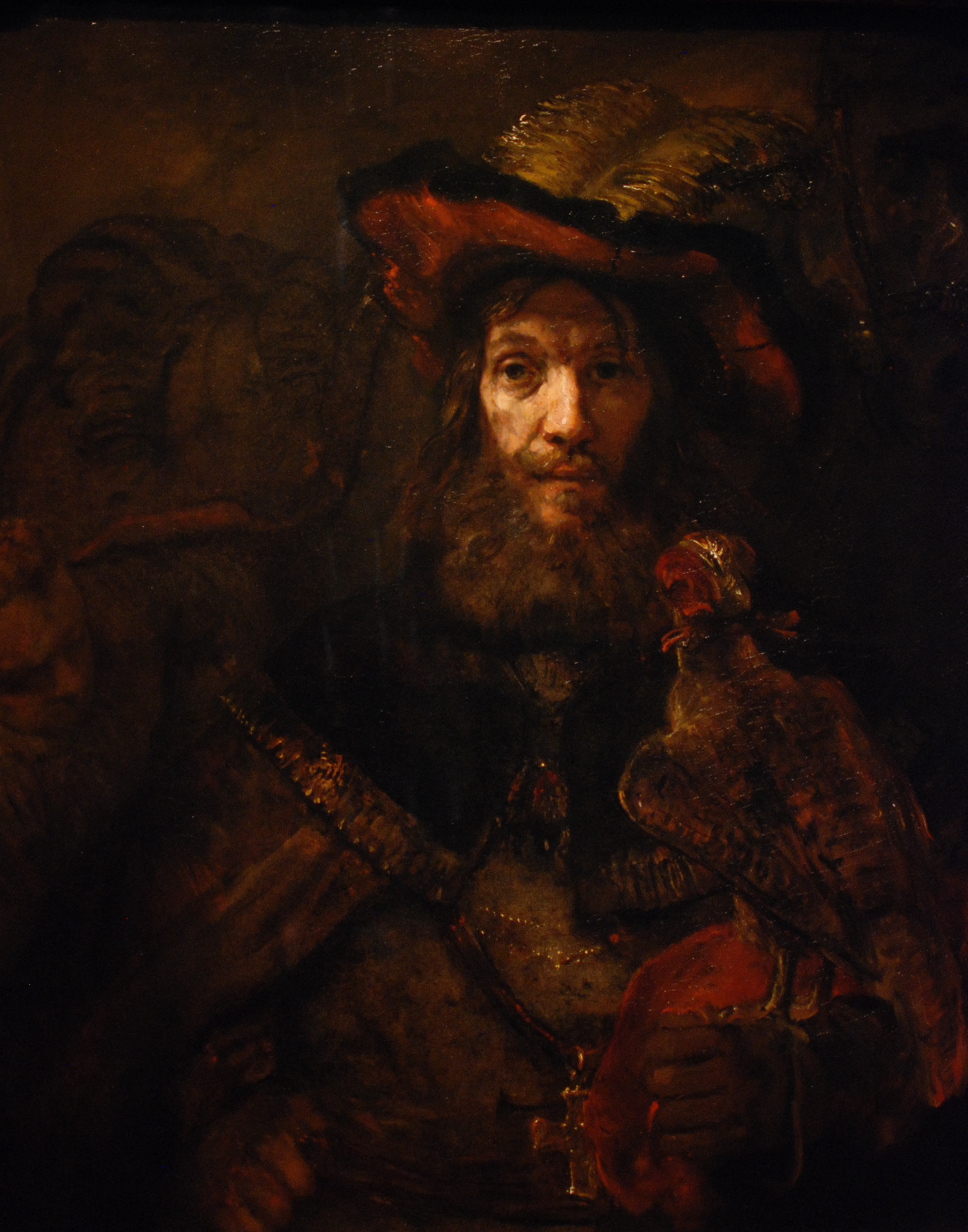 The Knight with the Falcon/St. Bavo by Rembrandt Harmensz van Rijn 1606-1669. Oil. Gift by Gustav Werner and art friends 1921. This is a photo of an artwork at the Gothenburg Museum of Art in Sweden with the identifier: GKM 698